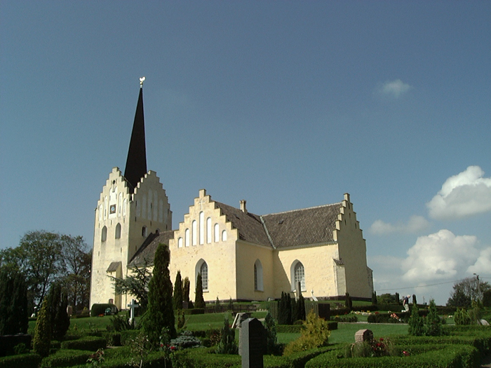 Svanninge Church seen from the graveyard